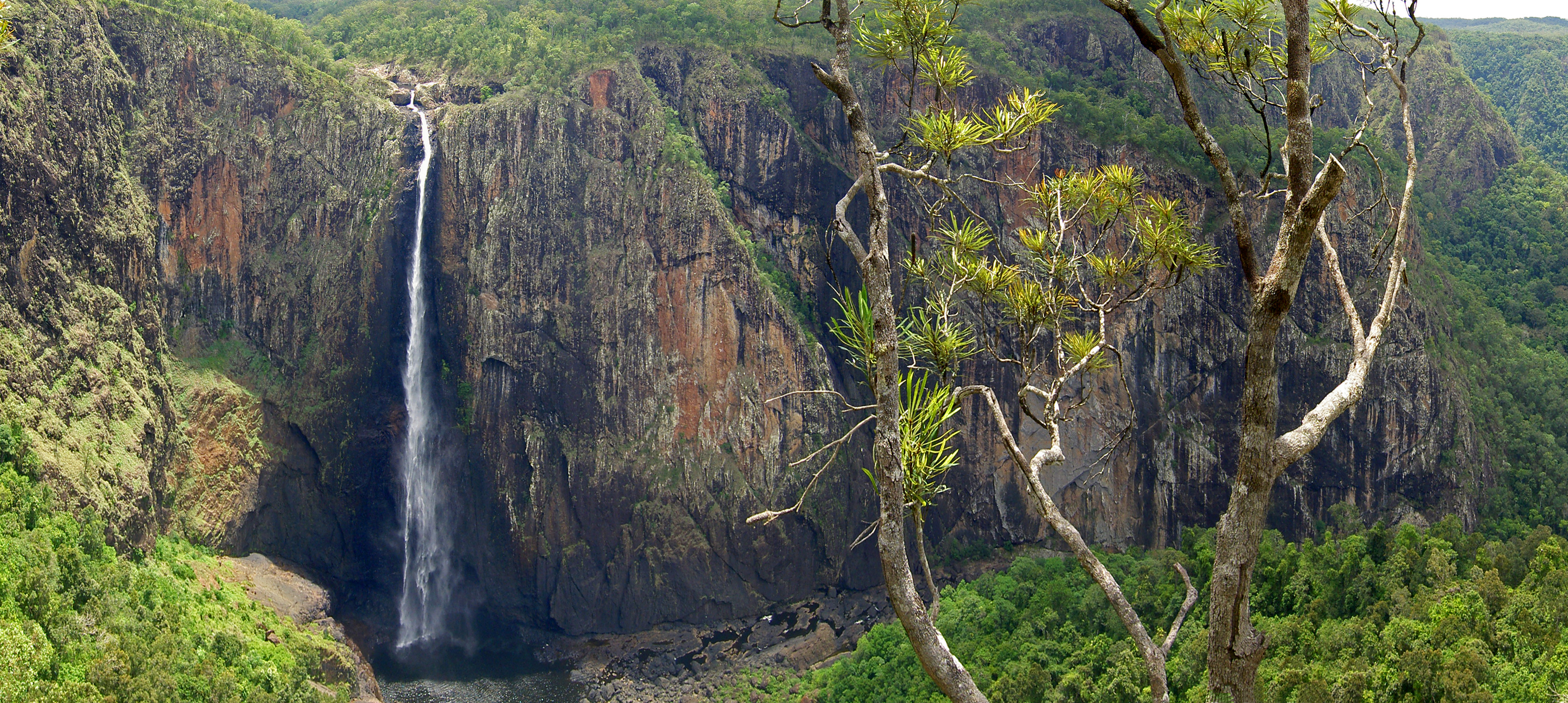 A panorama of Wallaman Falls, the highest single drop waterfall in Australia. The falls are situated in Queensland, Australia.